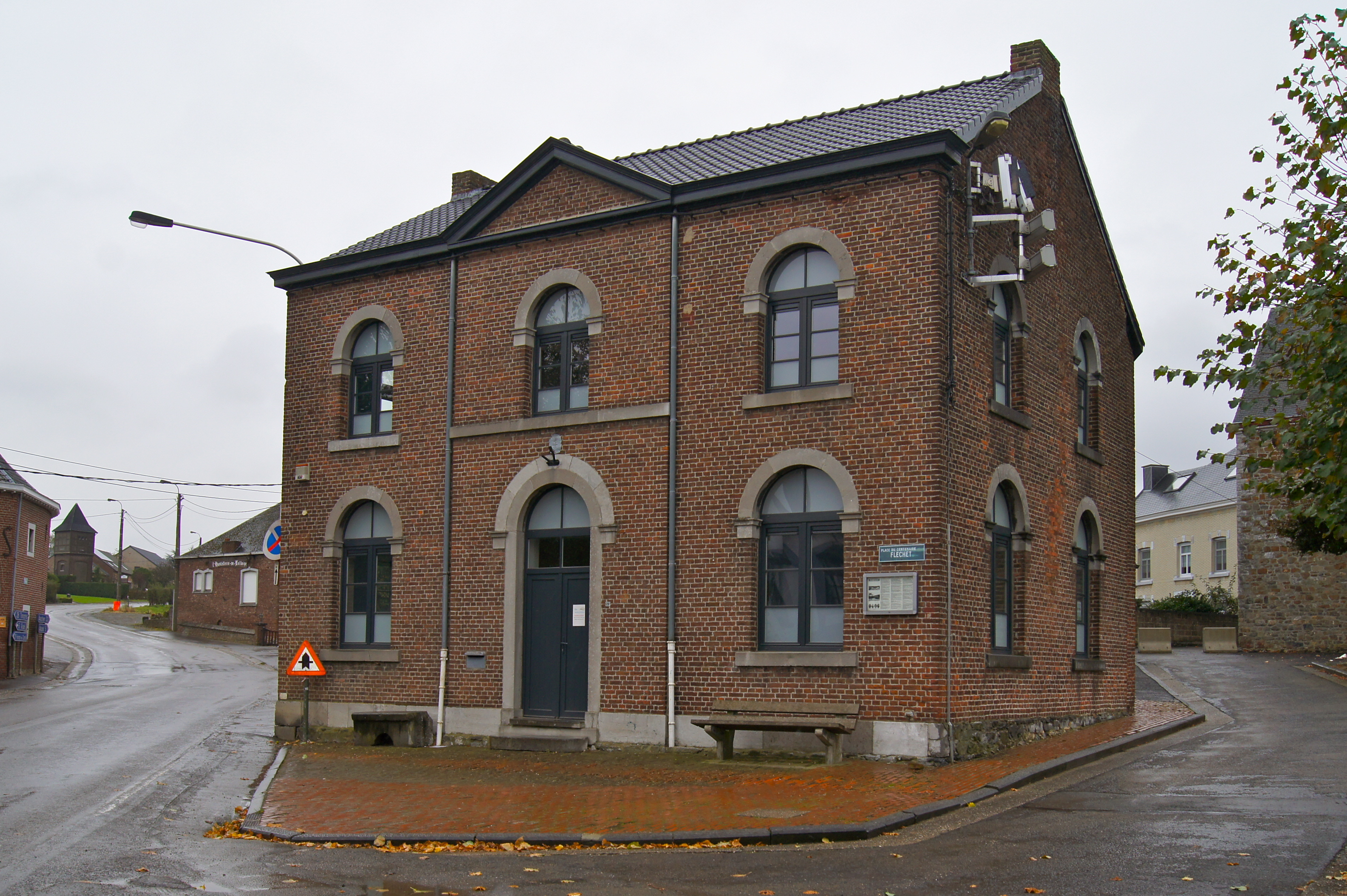 Dalhem (Warsage), Belgium: Former town hall